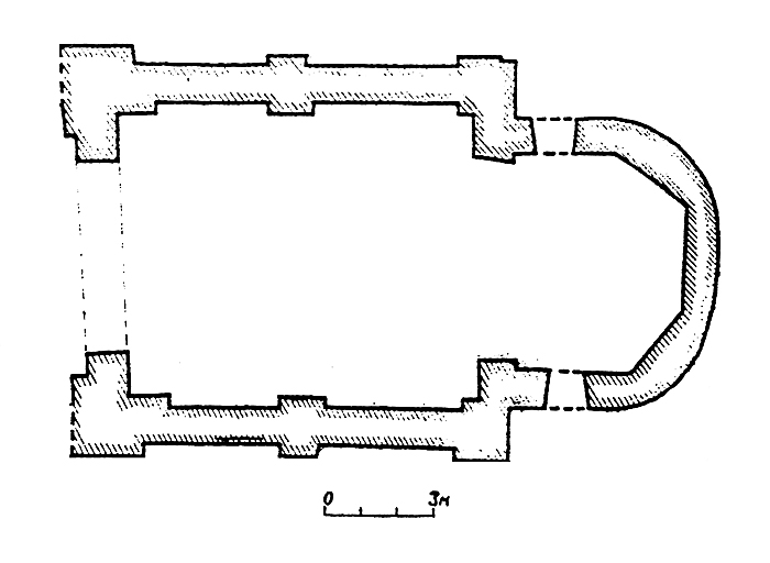 Intercession of the Theotokos church